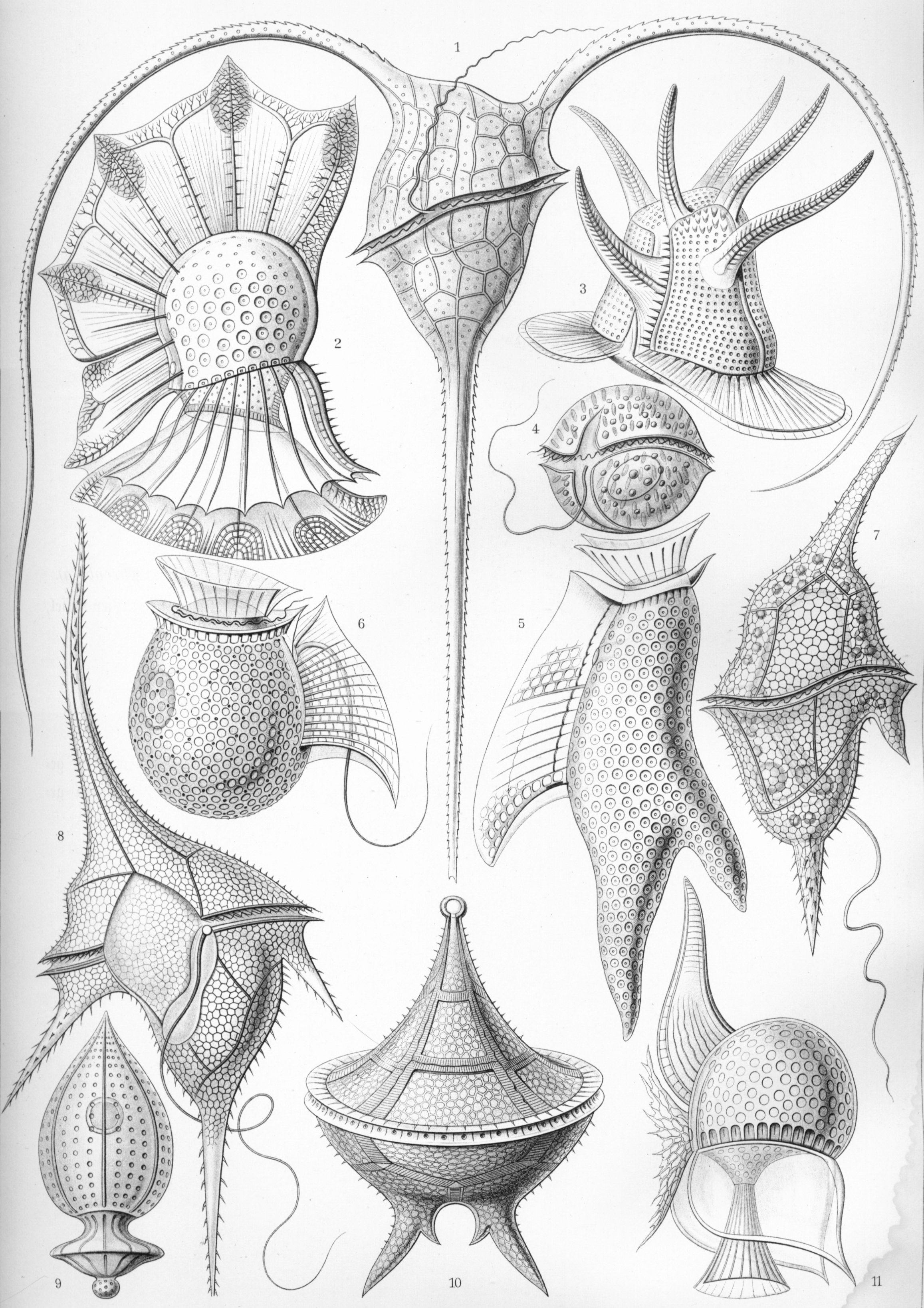 Enlarge image for index to numbers. Ceratium tripos (Nitsch) = Neoceratium tripos (O.F.Müller) F.Gomez, D.Moreira & P.Lopez-Garcia Ornithocercus magnificus (Stein) = Ornithocercus magnificus Stein Ceratocorys horrida (Stein) = Ceratocorys horrida Stein Goniodoma acuminatum (Stein) = Triadinium polyedricum (Pouchet) Dodge Dinophysis homunculus (Stein) = Dinophysis caudata Saville-Kent Dinophysis sphaerica (Stein) = Dinophysis sphaerica Stein Ceratium cornutum (Claparède) = Ceratium cornutum (Ehrenberg) Claparède & J. Lachmann Ceratium macroceros (Schrank) = Ceratium hirundinella (O.F.Müller) Dujardin Pyrgidium pyriforme (Haeckel) = Pyrgidium pyriforme E.H.P.A.Haeckel Peridinium divergens (Ehrenberg) = Protoperidinium divergens (Ehrenberg) Balech Histioneis remora (Stein) = Histioneis remora Stein